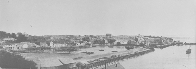 Commercial Bay, Auckland, New Zealand in 1859. The new seawall is in place, and infilling of the reclamation land will soon begin. Today, Customs Street follows the approximate course of the old seawall.